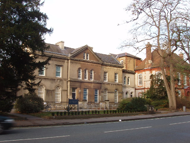 Oxford University Computing Services, Banbury Road, Oxford. The building includes lecture rooms for learning about use of computers. The neo-classical building with central pediment was built as three brick houses, 15, 17 and 19 Banbury Road. The façade is rendered with false stone joints ruled with a straight edge and stylus. On the left out of the picture, OUCS also has two pairs of semi-detached houses, 7 & 9, 11 and 13 Banbury Road. On the right of the photo is 21 Banbury Road which was built for Oxford High School for Girls it outgrew the Judge's Lodgings in St Giles'. For a history of computing in Oxford University